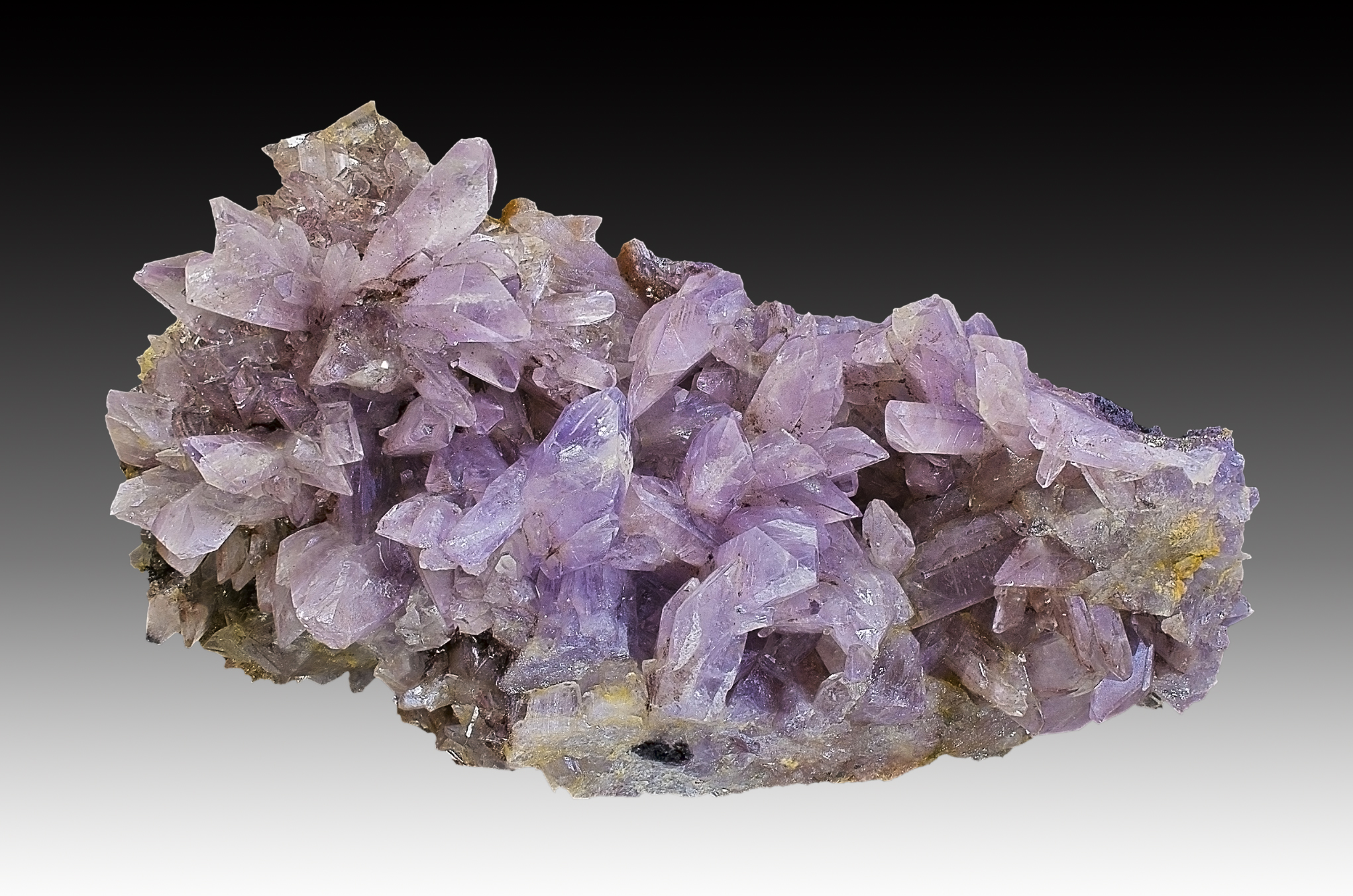 Creedite Locality: Mina Potosi Santa domingo, Santa Eulalia District, Municipio de Aquiles Serdán, Chihuahua, Mexico Size : 9.2x5.7x5.2x cm